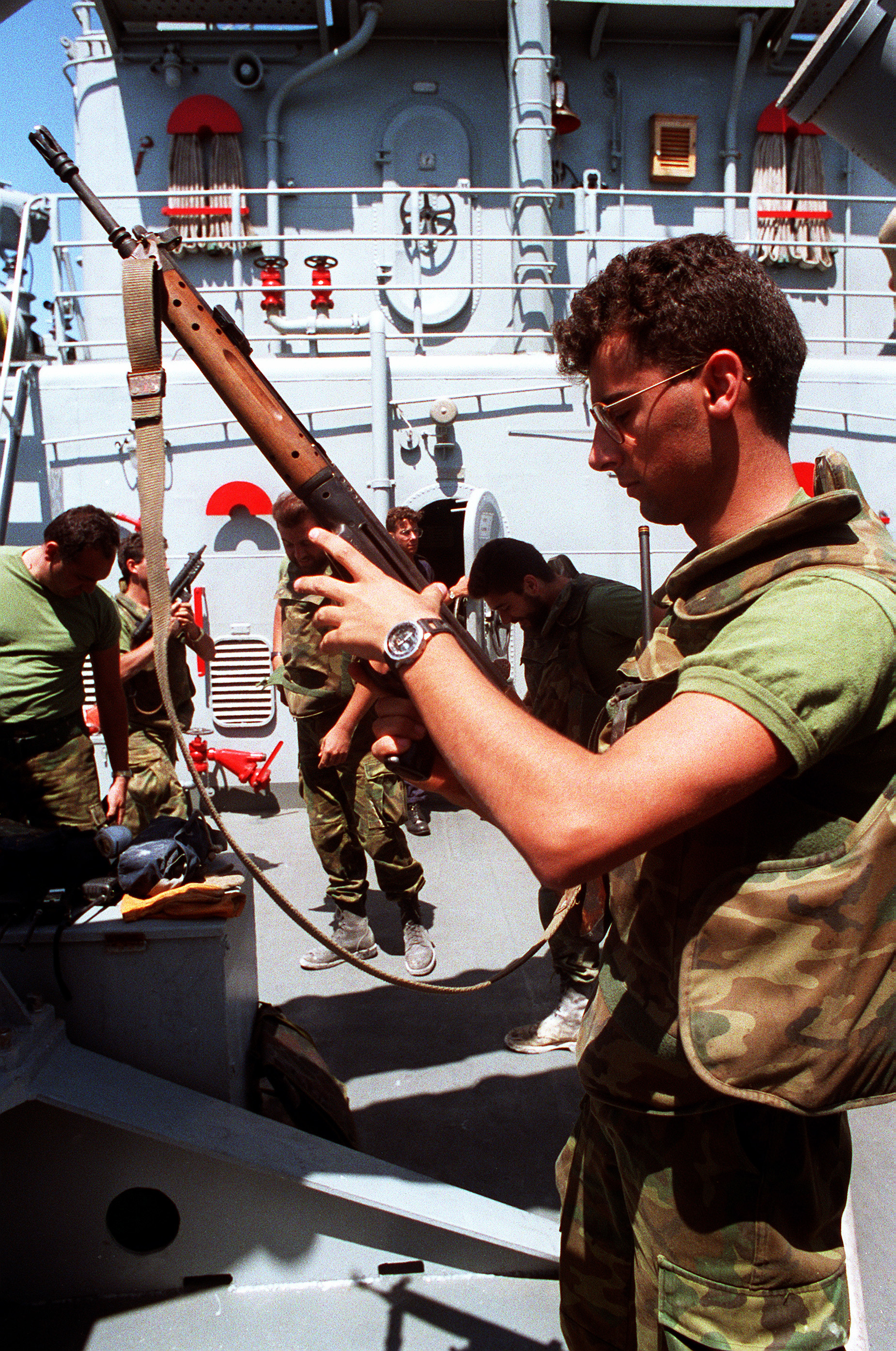 A member of a boarding party from the Spanish frigate Vencedora (F-36) clears his Model C CETME assault rifle after returning from the inspection of a merchant vessel. The Vencedora is one of the ships of the Maritime Interdiction Force (MIF), which was formed during Operation Desert Shield to enforce U.S. trade sanctions against Iraq. (Released to Public)